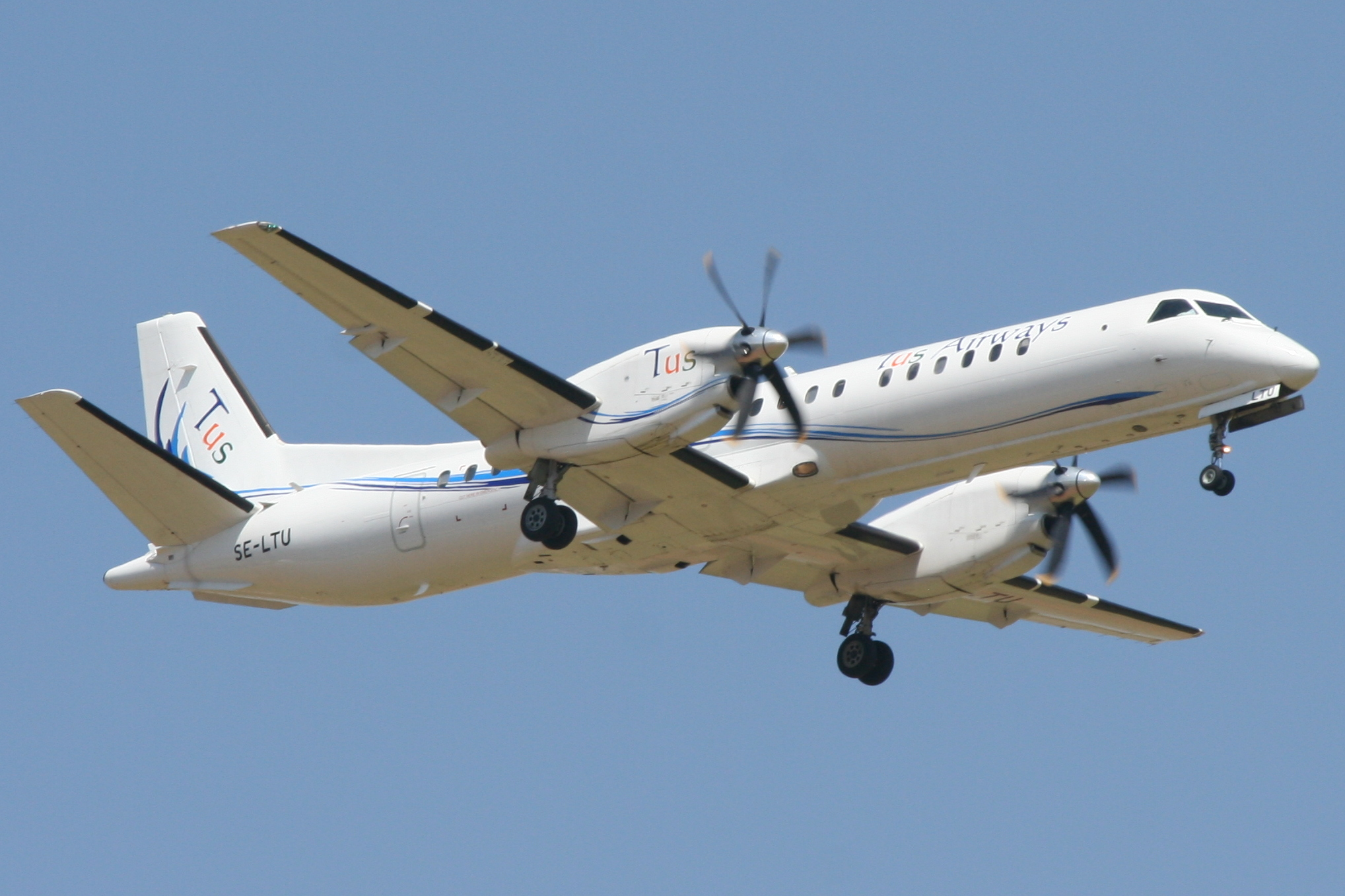 SE-LTU, young TUS air Saab 2000, landing at Ben Gurion International airport.